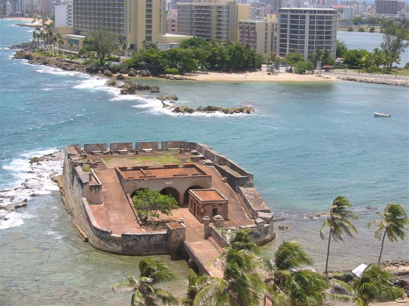 Picture taken from the top of Caribe Hilton Hotel Tagging GFDL: Likely taken by uploader, (a) according to upload info and (b) he has taken similar images (e.g. Image:Luis Munoz Rivera statue.jpg, Image:Old San Juan aerial.jpg and Image:Old san juan.jpg, and reluctant to tag until adviced to. Fred-Chess 21:20, 26 September 2005 (UTC)